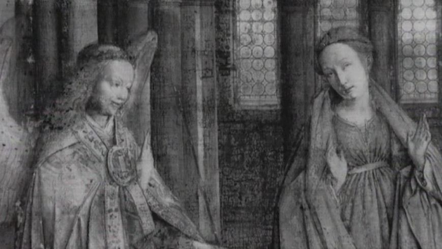 Underdrawing from Annunciation - Jan van Eyck - 1434